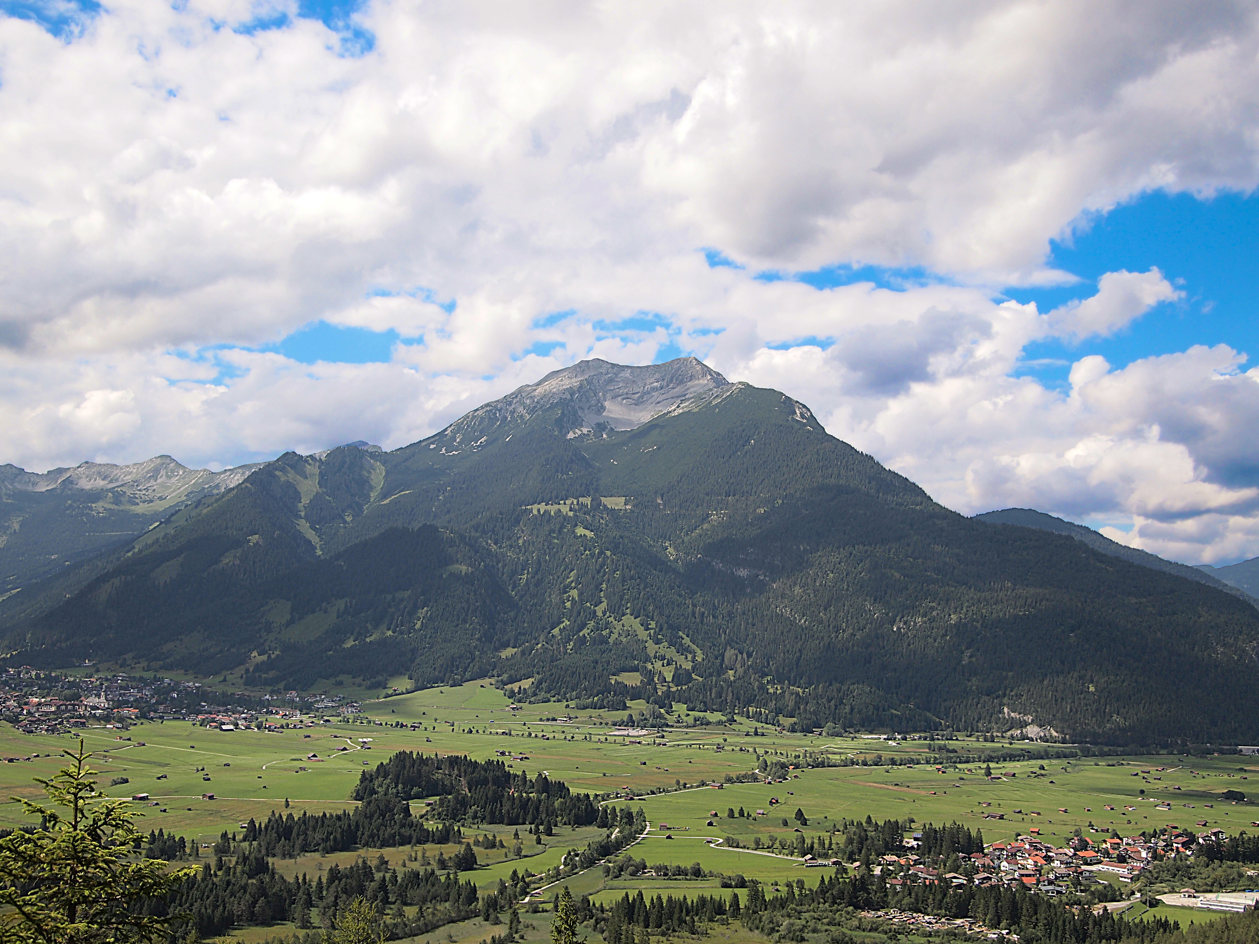 View to mountain Daniel in Austria. This photograph was taken with an Olympus E-PL1